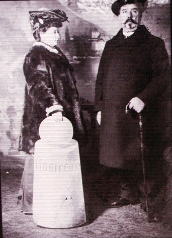 Olga Varbenova and General Grigor Grancharov in Montreux, 1908